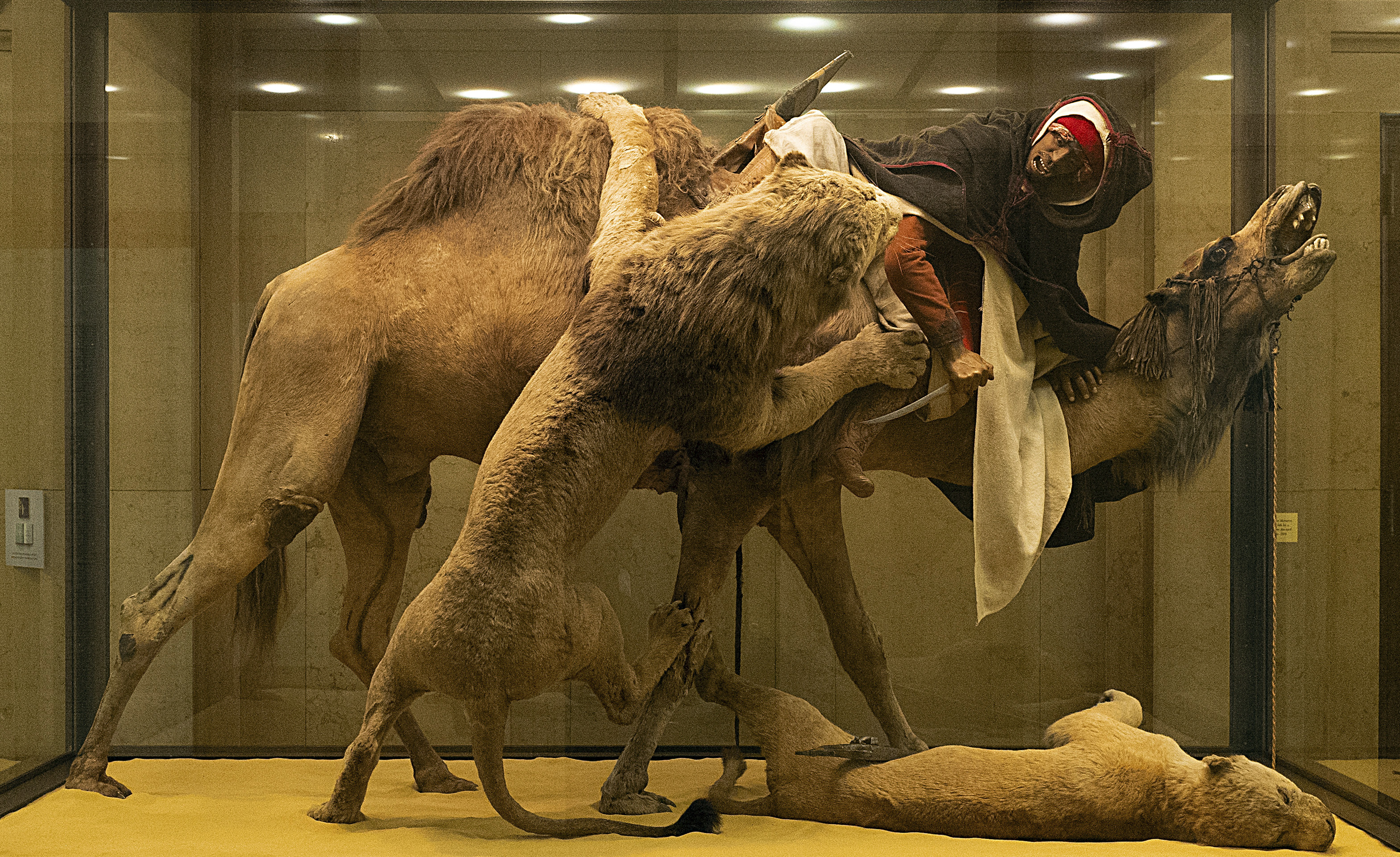 . . . in the Carnegie Mellon Museum of Natural History. Pittsburgh. (The armature for the sculpting of the man's head is a human skull.)